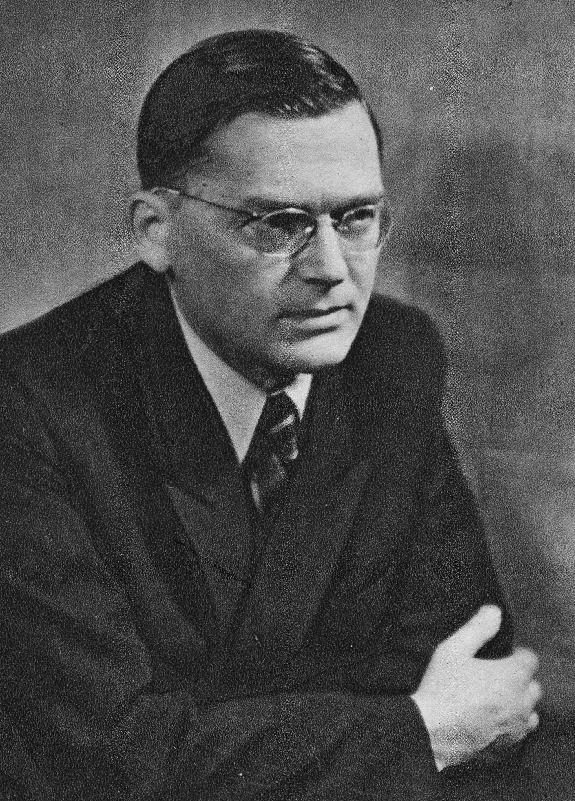 Deputy Prime Minister Aleksander Zawadzki